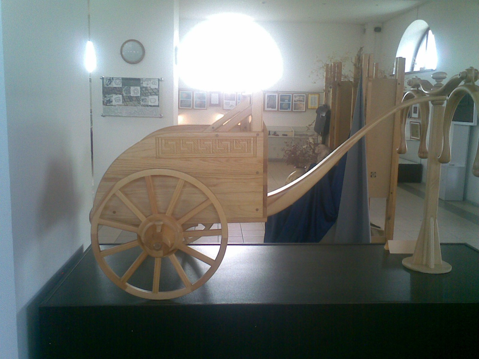 In the museum-reserve Arkaim